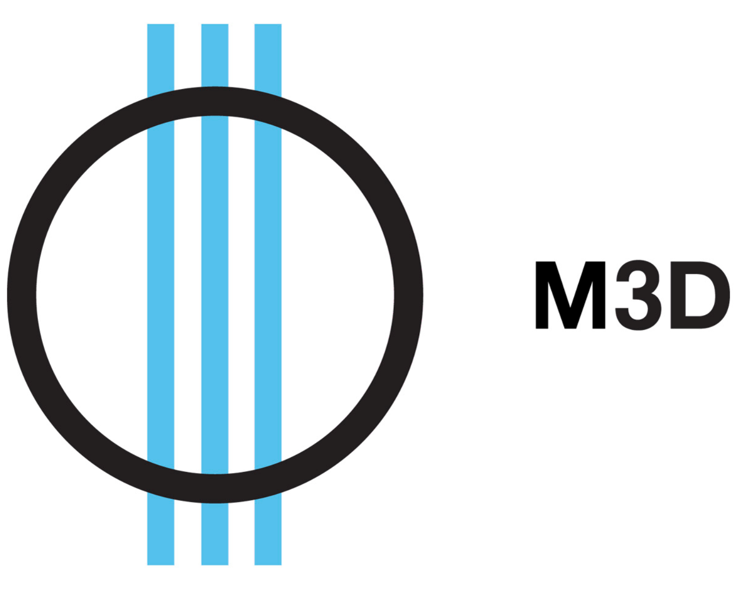 This is the logo of the Hungarian television channel M3D.